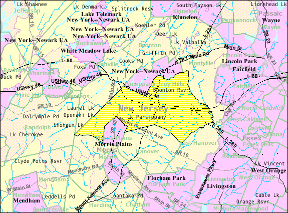 Census Bureau map of Parsippany-Troy Hills